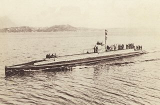 French sumbarine Armide, of the Armide class